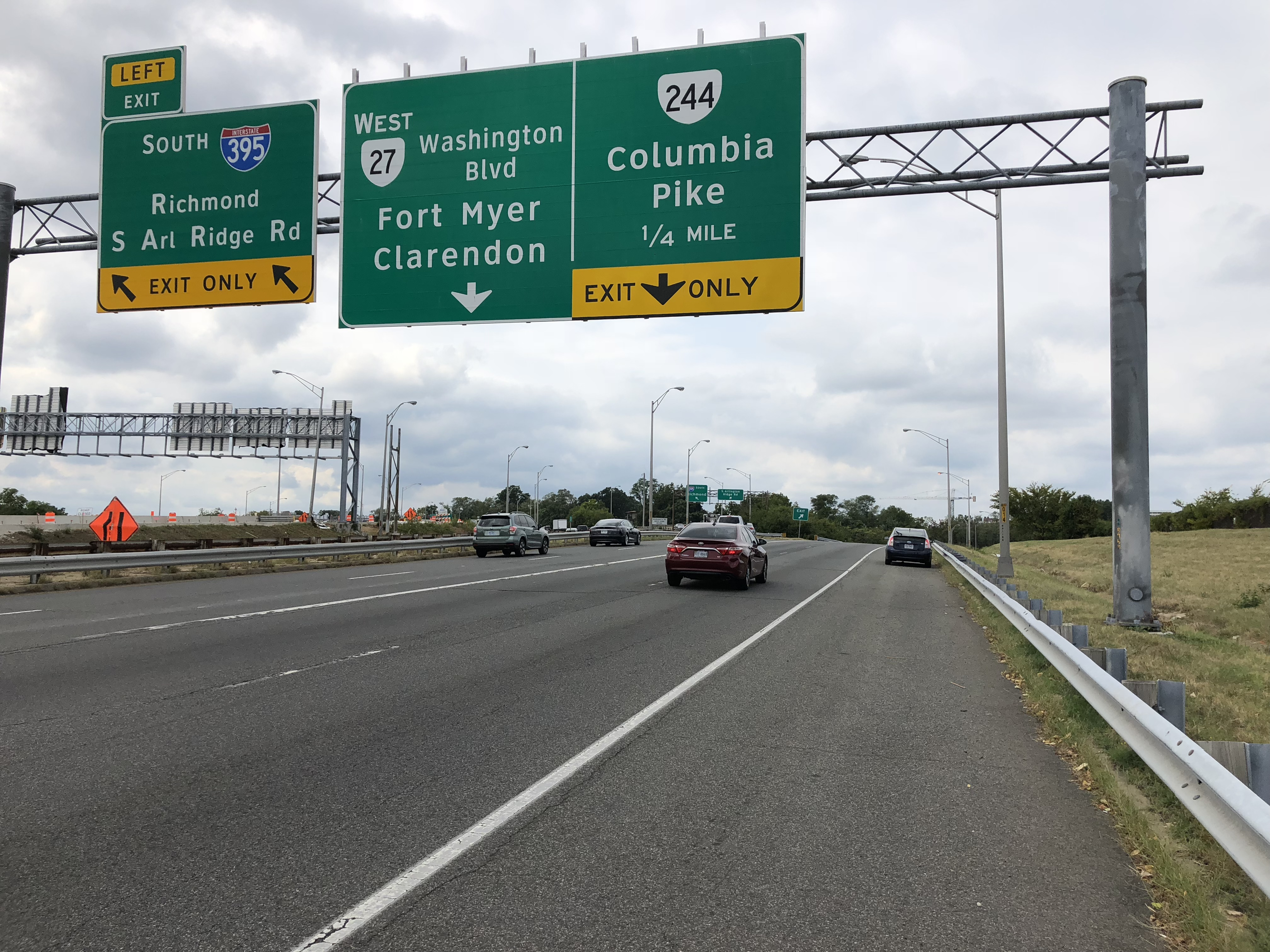 View west along Virginia State Route 27 (Washington Boulevard) at the exit for SOUTH Interstate 395 (Richmond, South Arlington Ridge Road) in Arlington County, Virginia